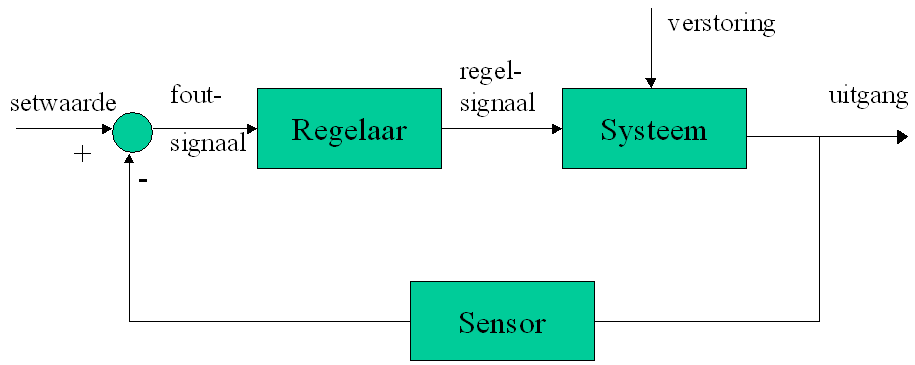 Diagram of a closed sysem in regulation technology.